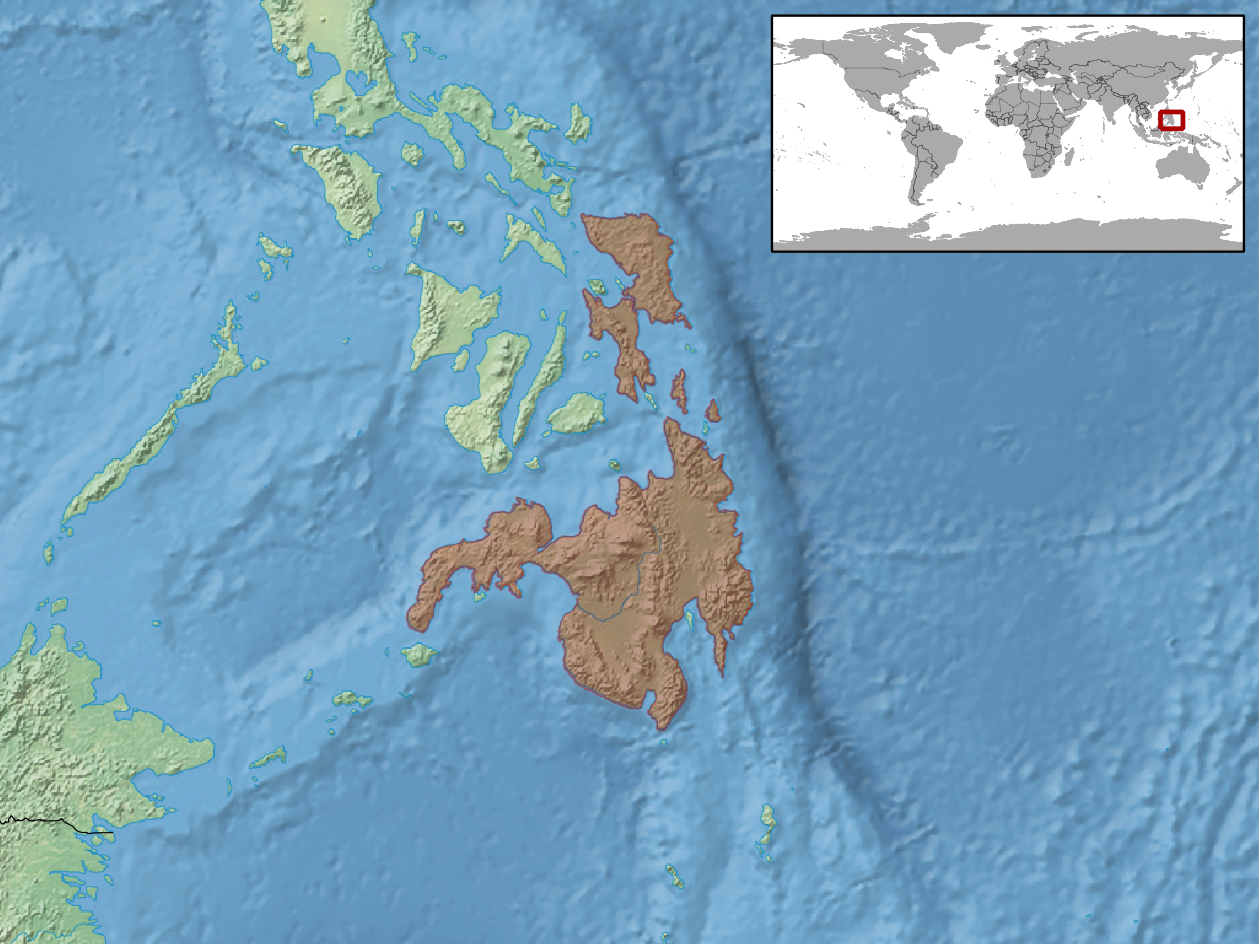 geographic distribution of Cyrtodactylus agusanensis (Native: Philippines)